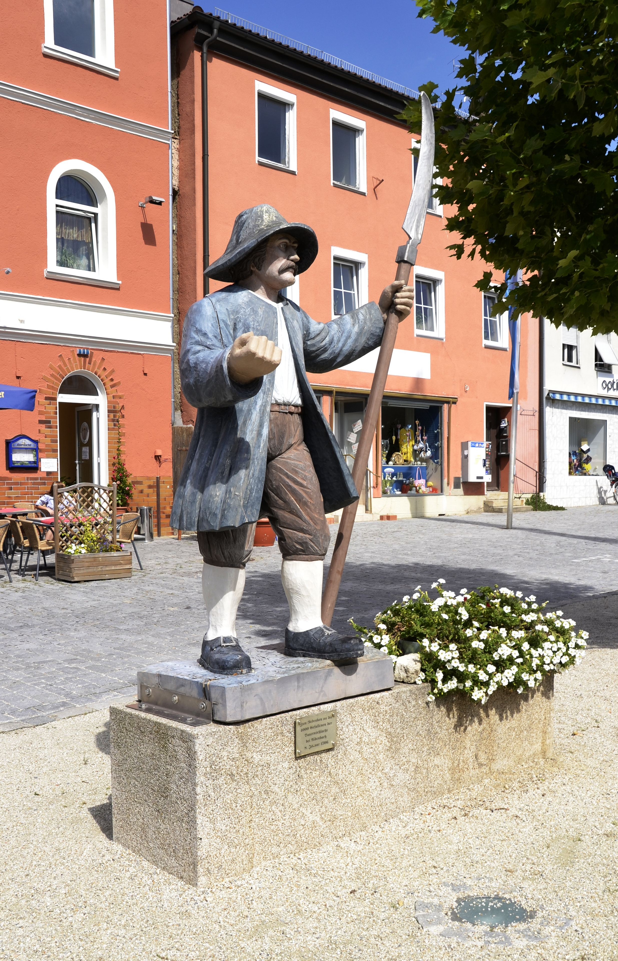 Monument for the Peasants' War in Aidenbach, Bavaria, Germany.